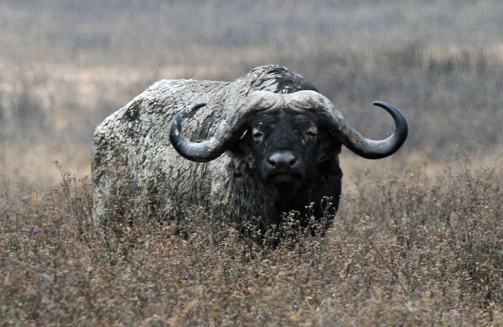 African Buffalo, Ngorongoro Crater Tanzania.